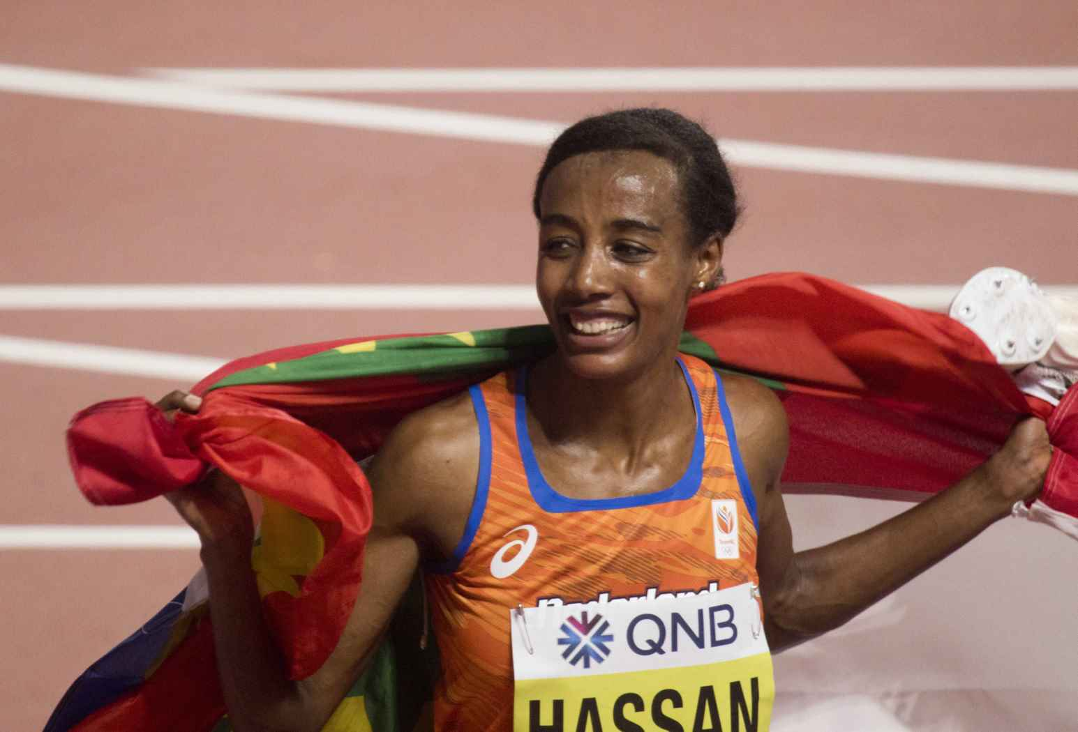 Sifan Hassan celebrating for victory at the 2019 World Athletics Championships.